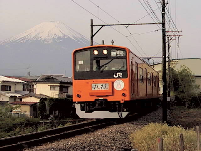 A JR East 201 series EMU